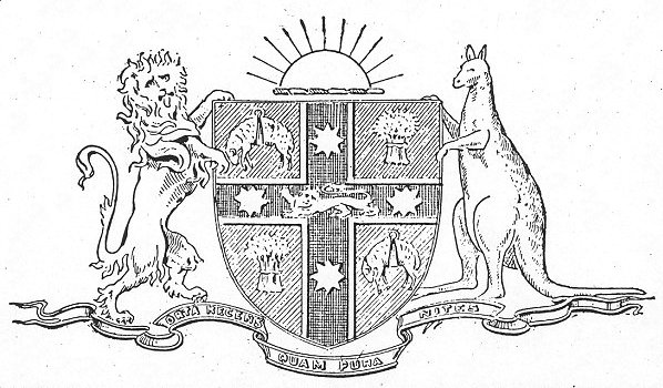 NSW Coat of Arms in Sydney Morning Herald on 30 March 1906